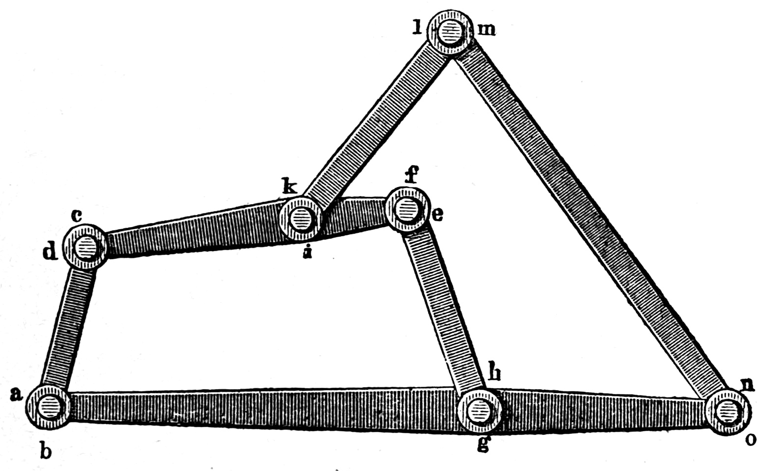 Figure 12 from The Kinematics of Machinery.